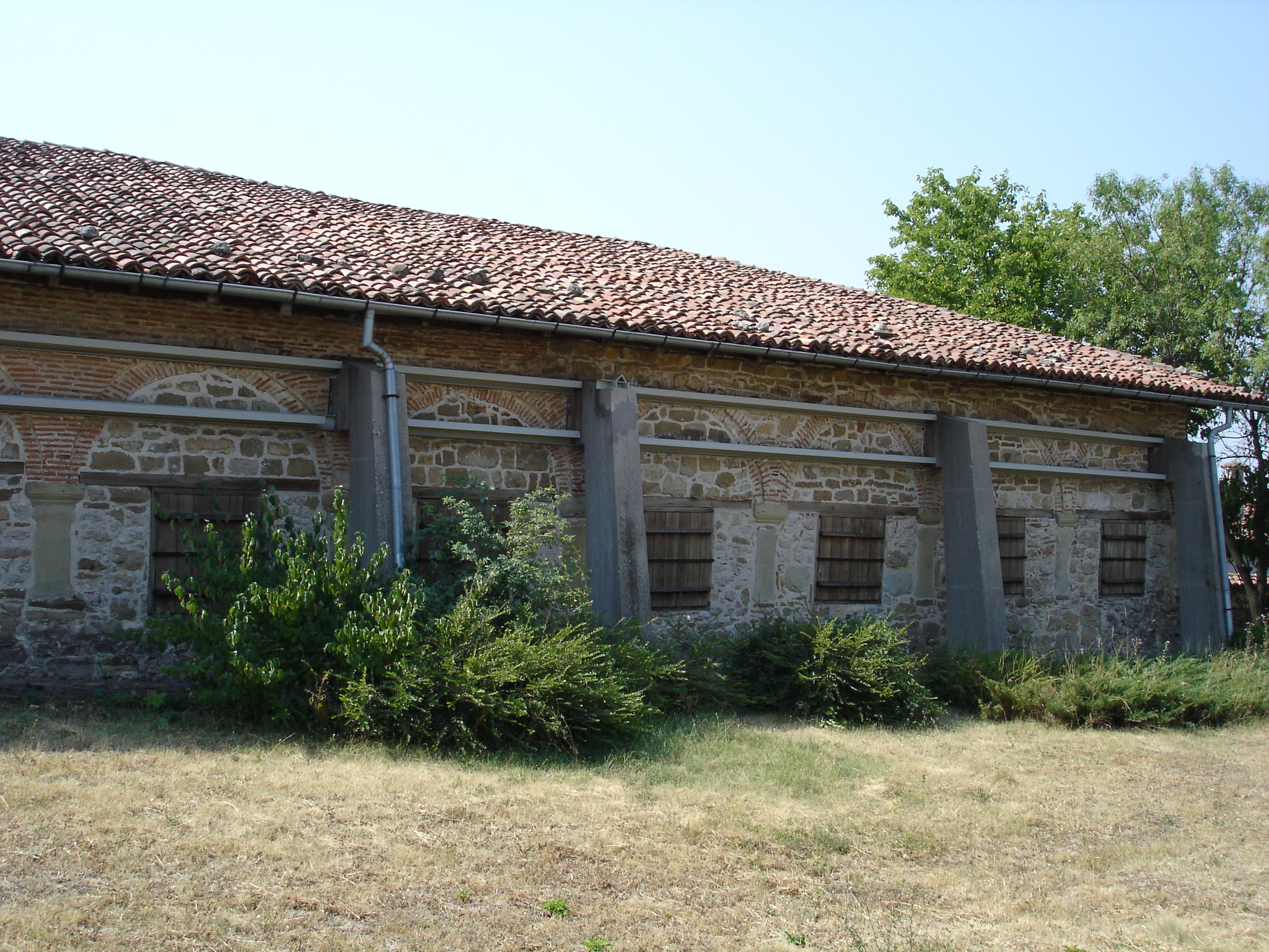 Arbanasi, Architectural Preserve